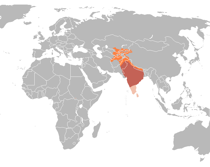 Indian Golden Oriole (Oriolus kundoo) distribution map. Orange: summer. Red: resident. Pink: winter